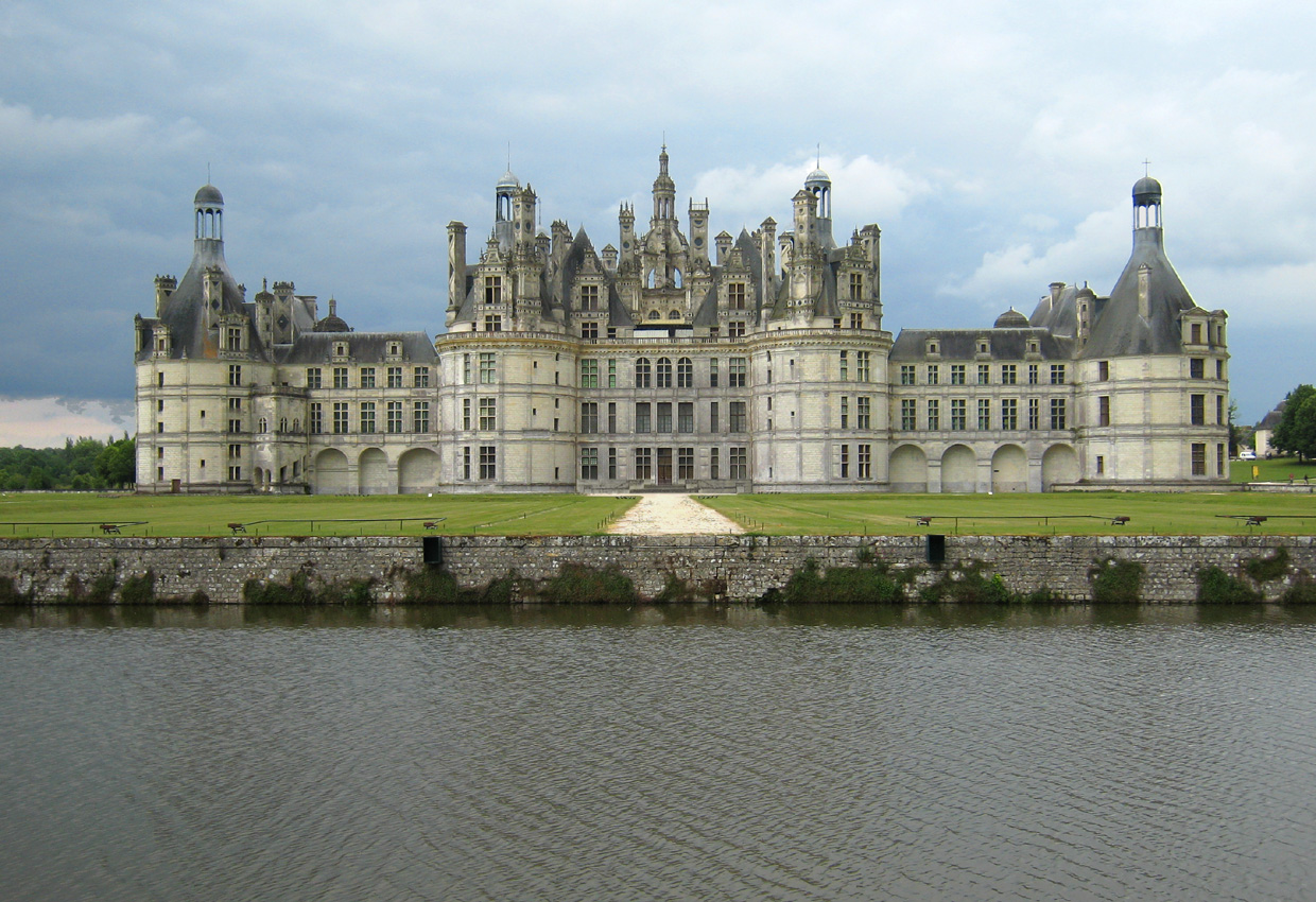 Château de Chambord, view from the gardens